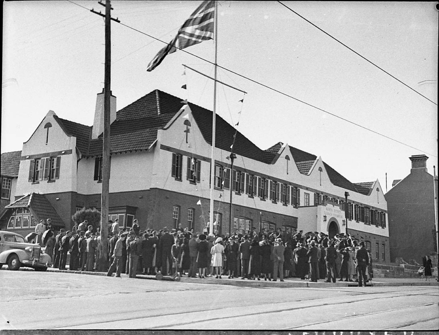 Centenary of North Sydney, opened by Mr Hughes Described here